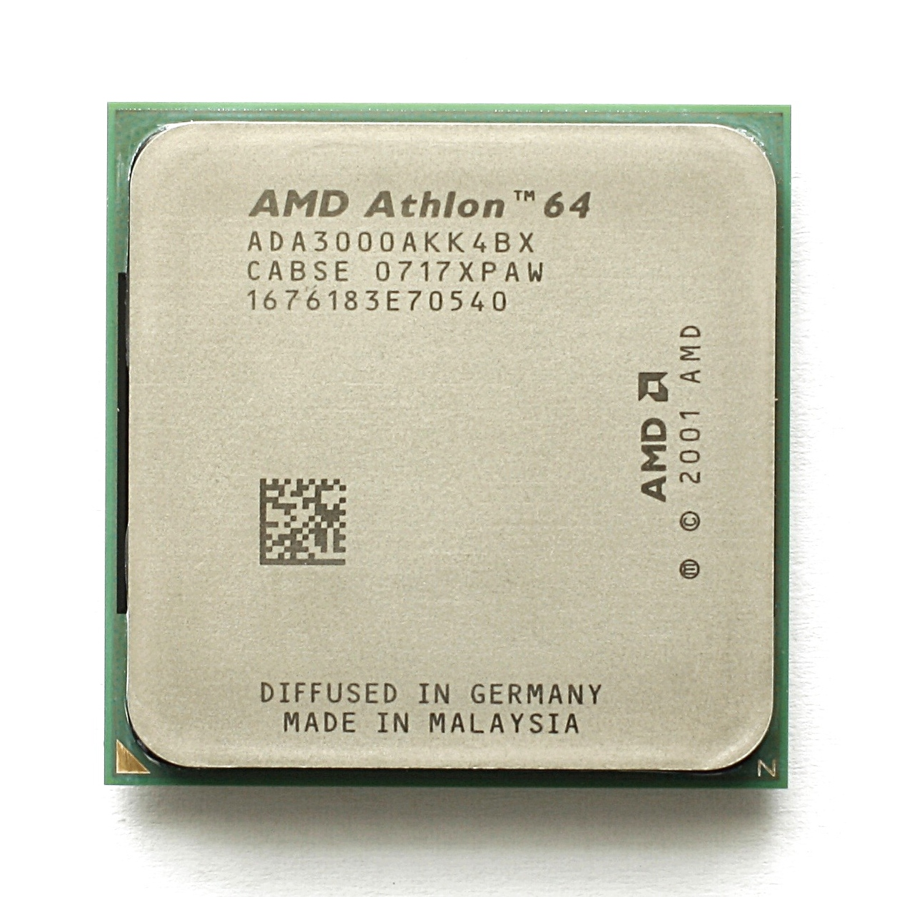 CPU AMD Athlon 64 Venice Core, Socket 754, Rev. E6